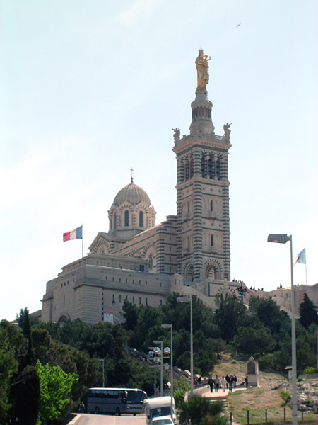 Exterior view of Notre Dame de la Garde, Marseille, France